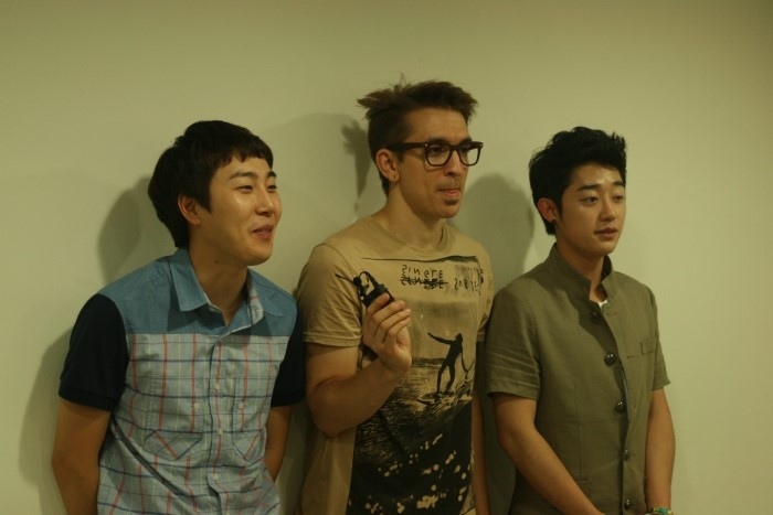 Busker Busker in June 15, 2012, during the Expo 2012 Yeosu.